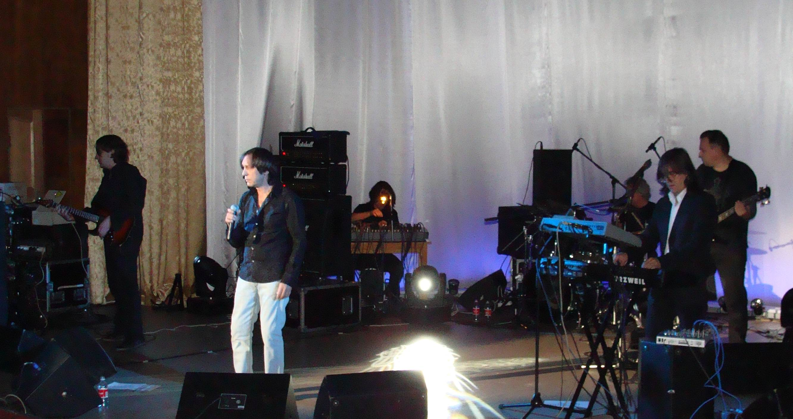 Nikolai Ivanovich Noskov ( born January 12, 1956, Gzhatsk) is a Russian singer and a former vocalist of the hard rock band Gorky Park.